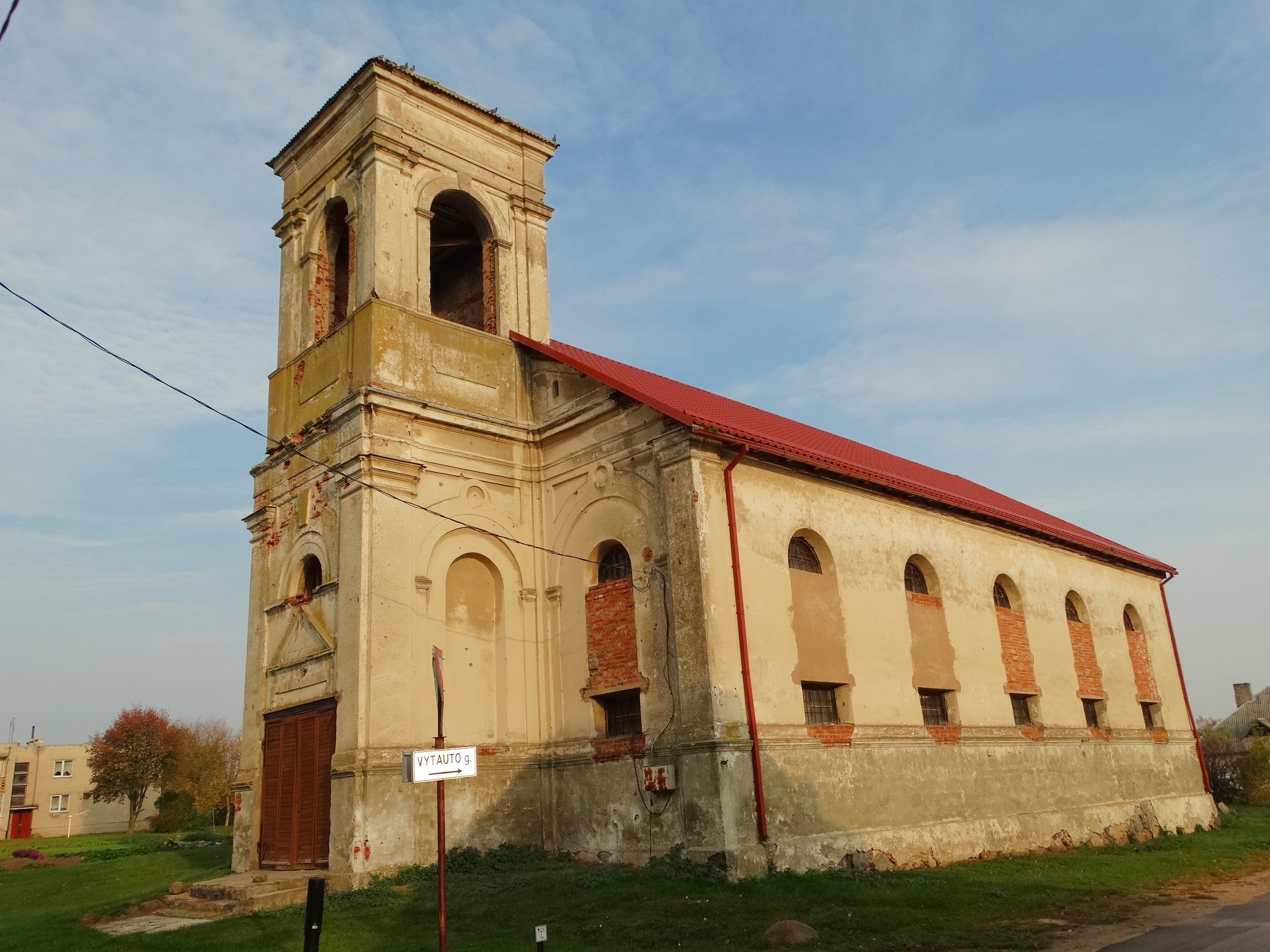 Evangelical Lutheran Church in Virbalis, Vilkaviškis District, Lithuania